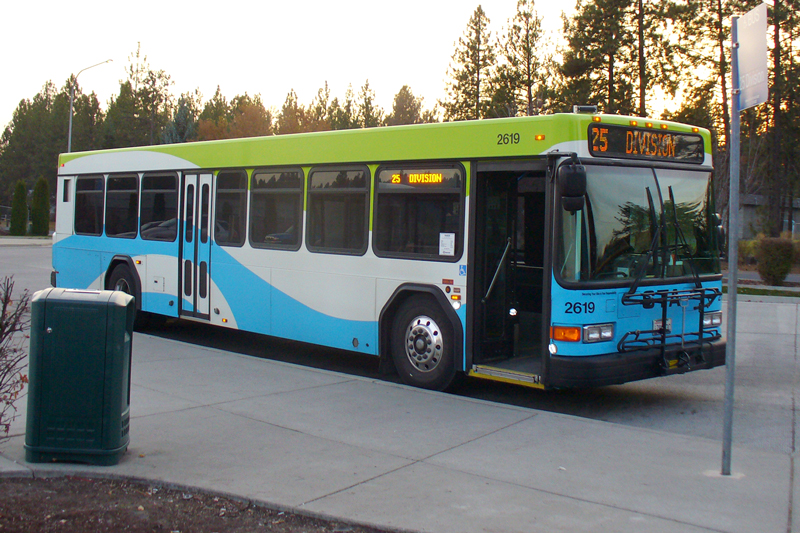 A Spokane Transit Authority bus.